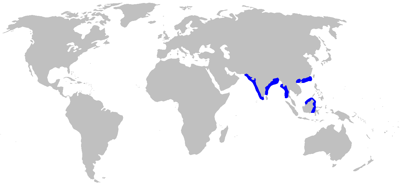 Distribution map for Lamiopsis temminckii